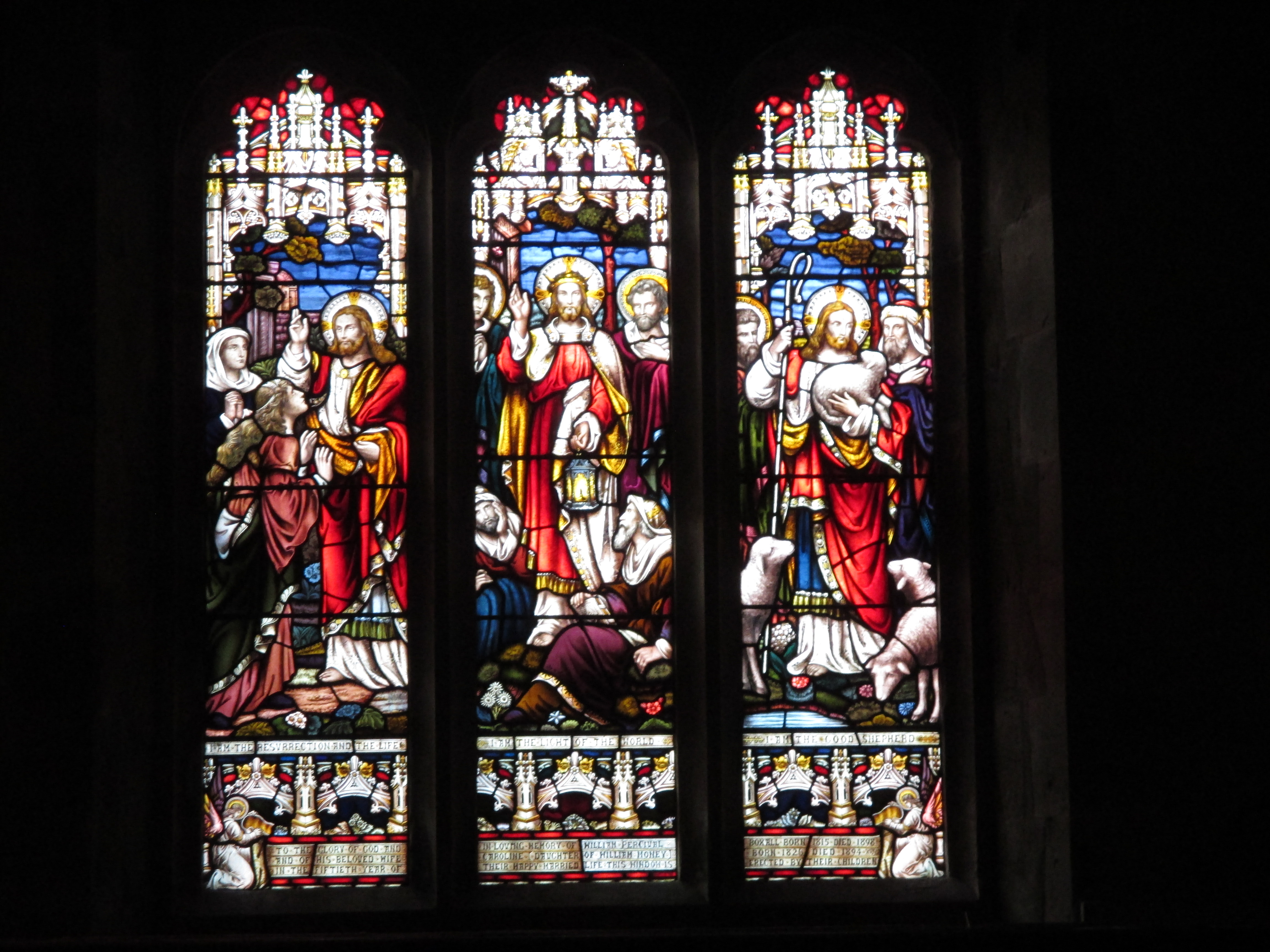 West window of the south aisle of St Peter's parish church, Cowfold, West Sussex, with stained glass made by Alexander Gibbs & Co